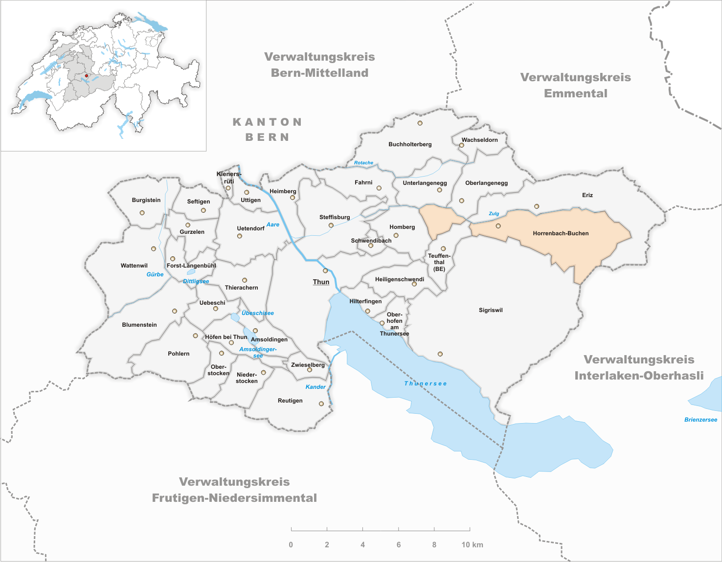 Municipality Horrenbach-Buchen